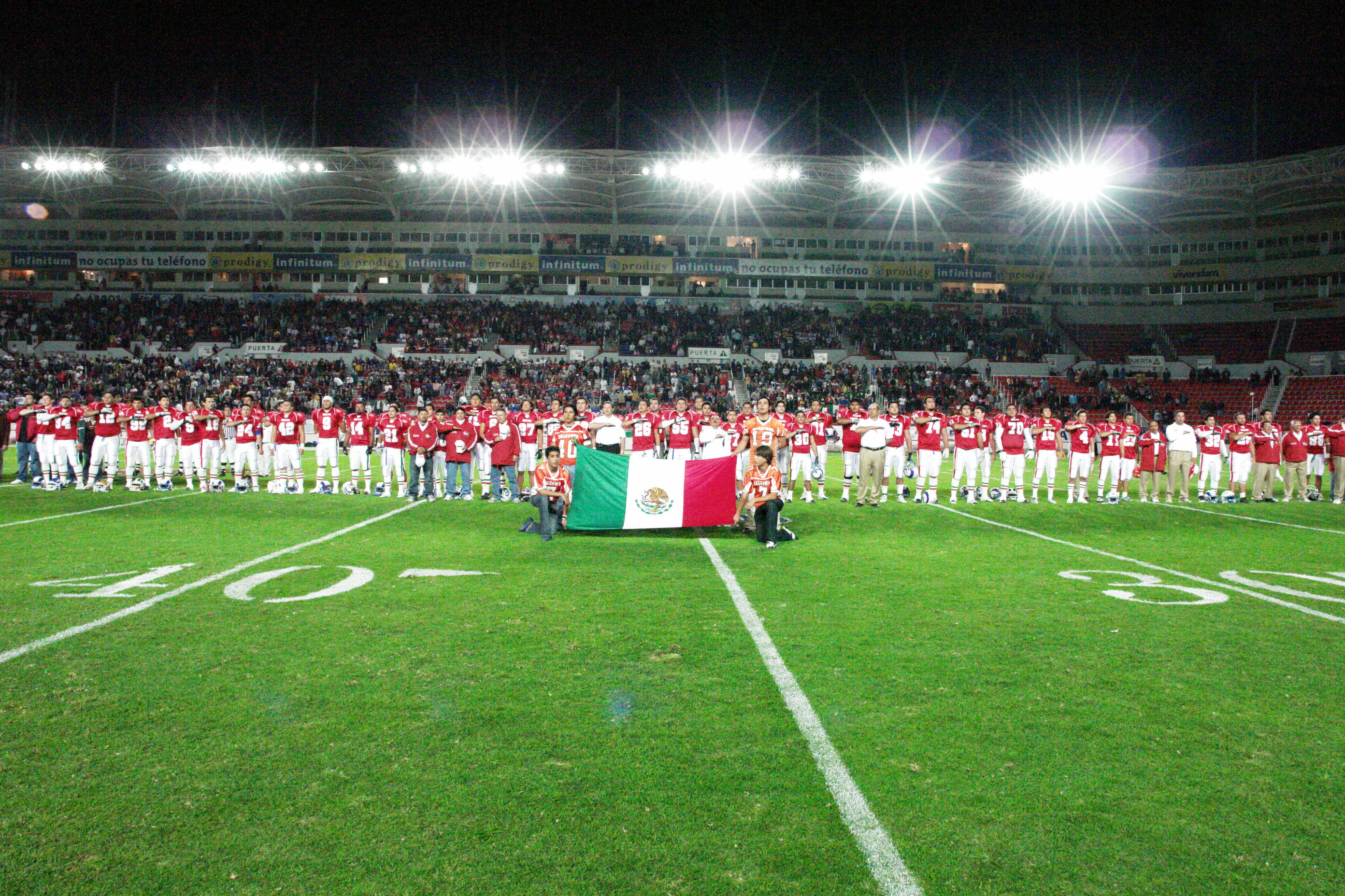 Azteca bowl football game in Aguacalientes, MexicoTazon Azteca